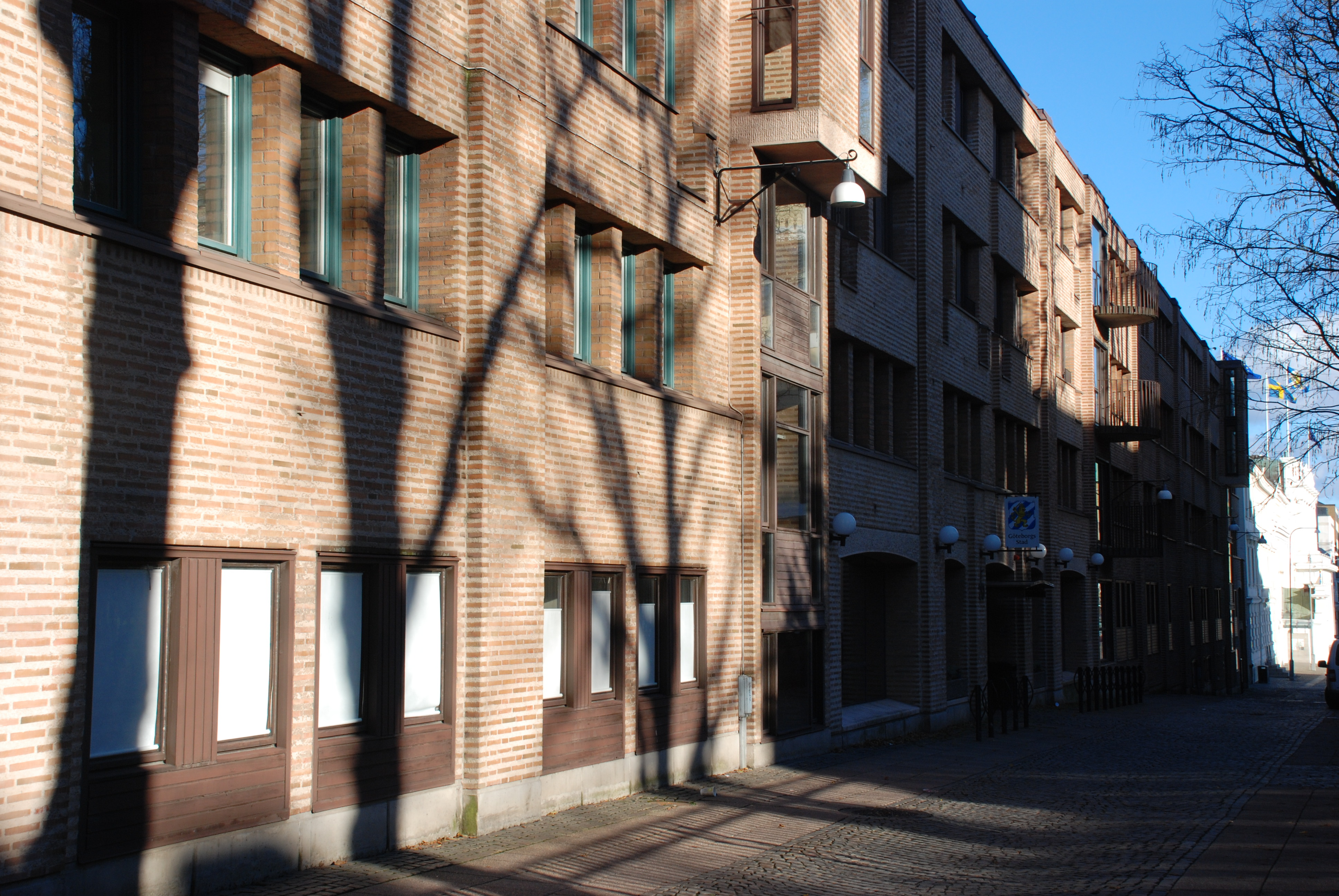 Göteborg´s city administration building "Traktören" from Köpmansgatan.